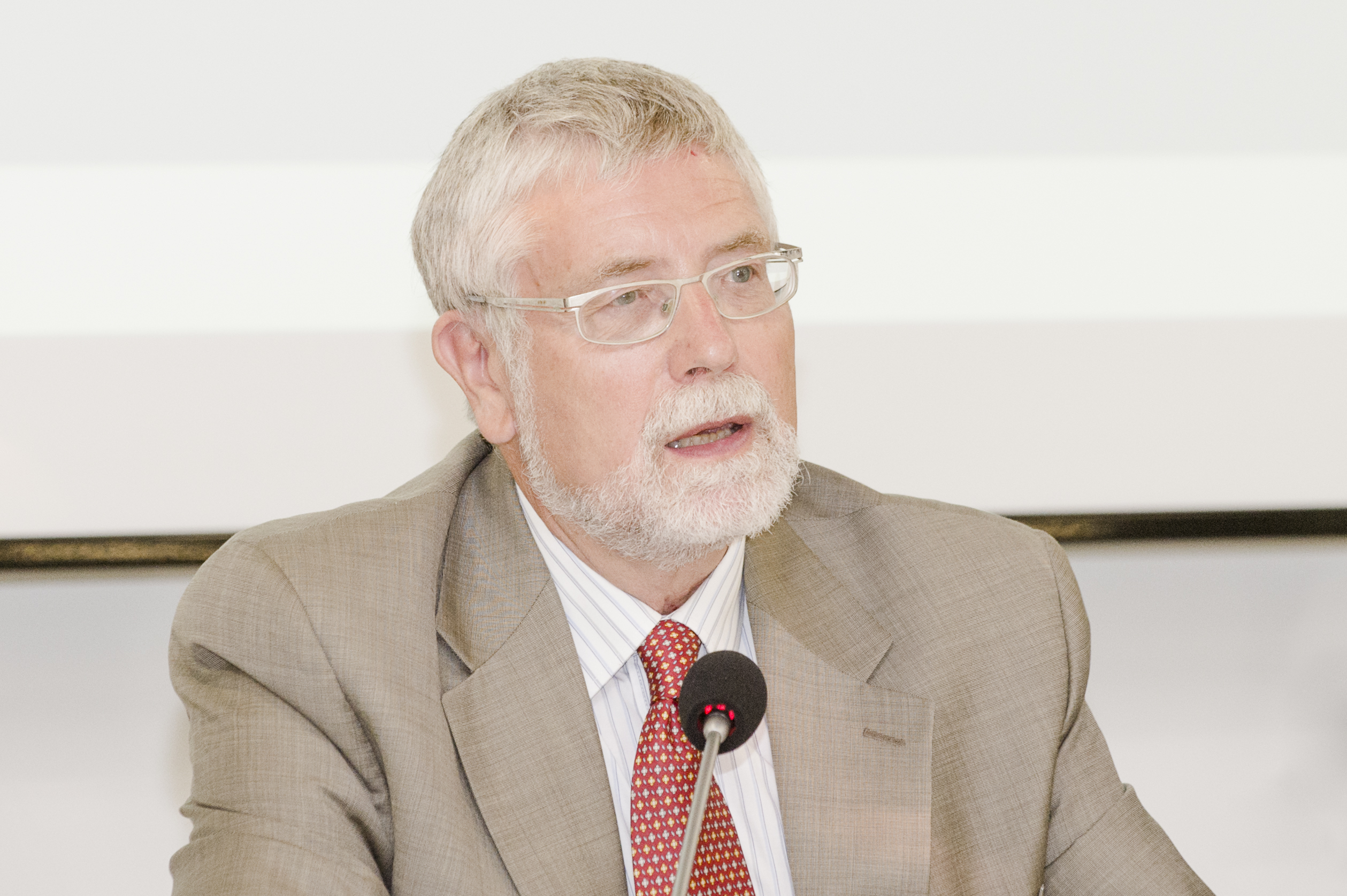 Michael Brzoska, Institut for Peace Research and Security Policy Hamburg, Bild: Isis Martins